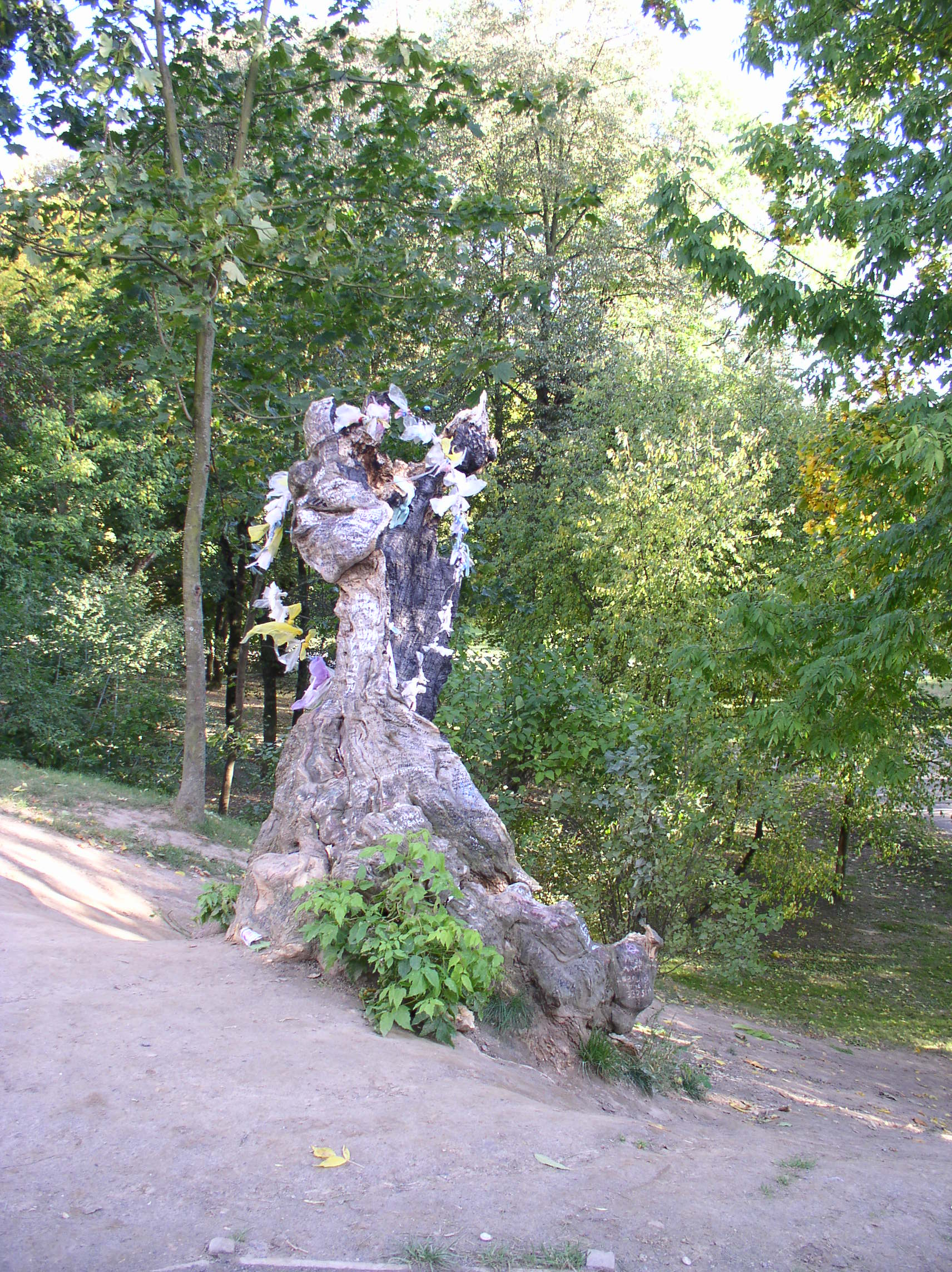 Park in Loshytsa. Minsk, Belarus.